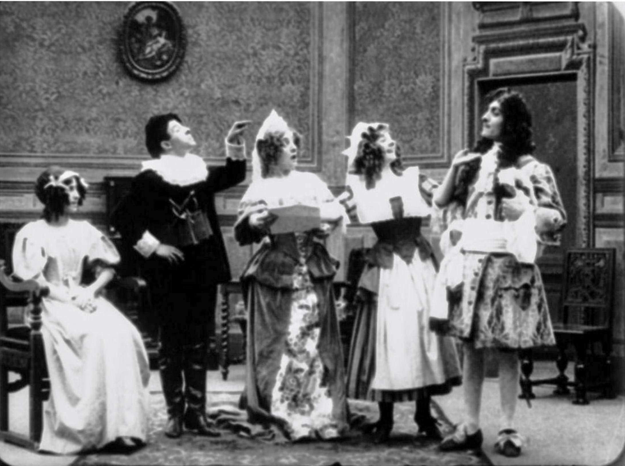 Film director André Calmettes hires actress Amélie Diéterle in the film Le Légataire universel after Jean-François Regnard 's play in 1909. Female character on the right of the photograph. Amélie Diéterle is a French actress born in Strasbourg on February 20, 1871 and died in Cannes on January 20, 1941. She was legitimated in Paris in 1892 by Captain Louis Laurent, Knight of the Legion of Honor. Amélie Diéterle married in Vallauris on June 16th, 1930 with André Simon (1877-1965). Amélie Diéterle plays mainly at the Théâtre des Variétés in Paris during the Belle Époque.